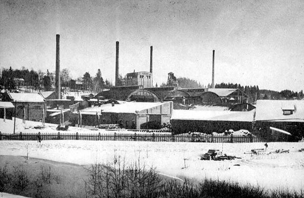 Plant in Värtsilä, in the 1930es